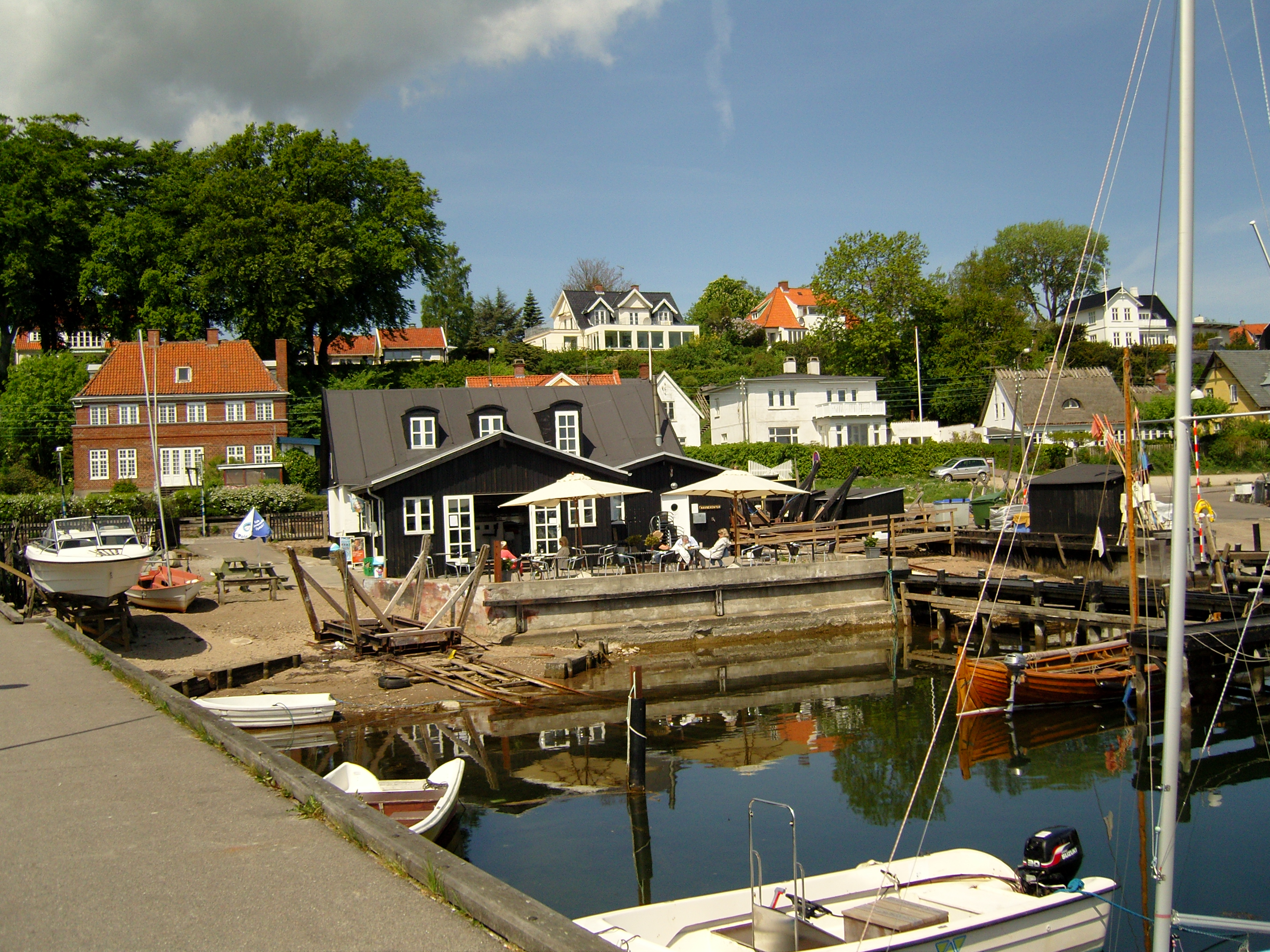 Snekkersten on the coast north of Copenhagen, Denmark